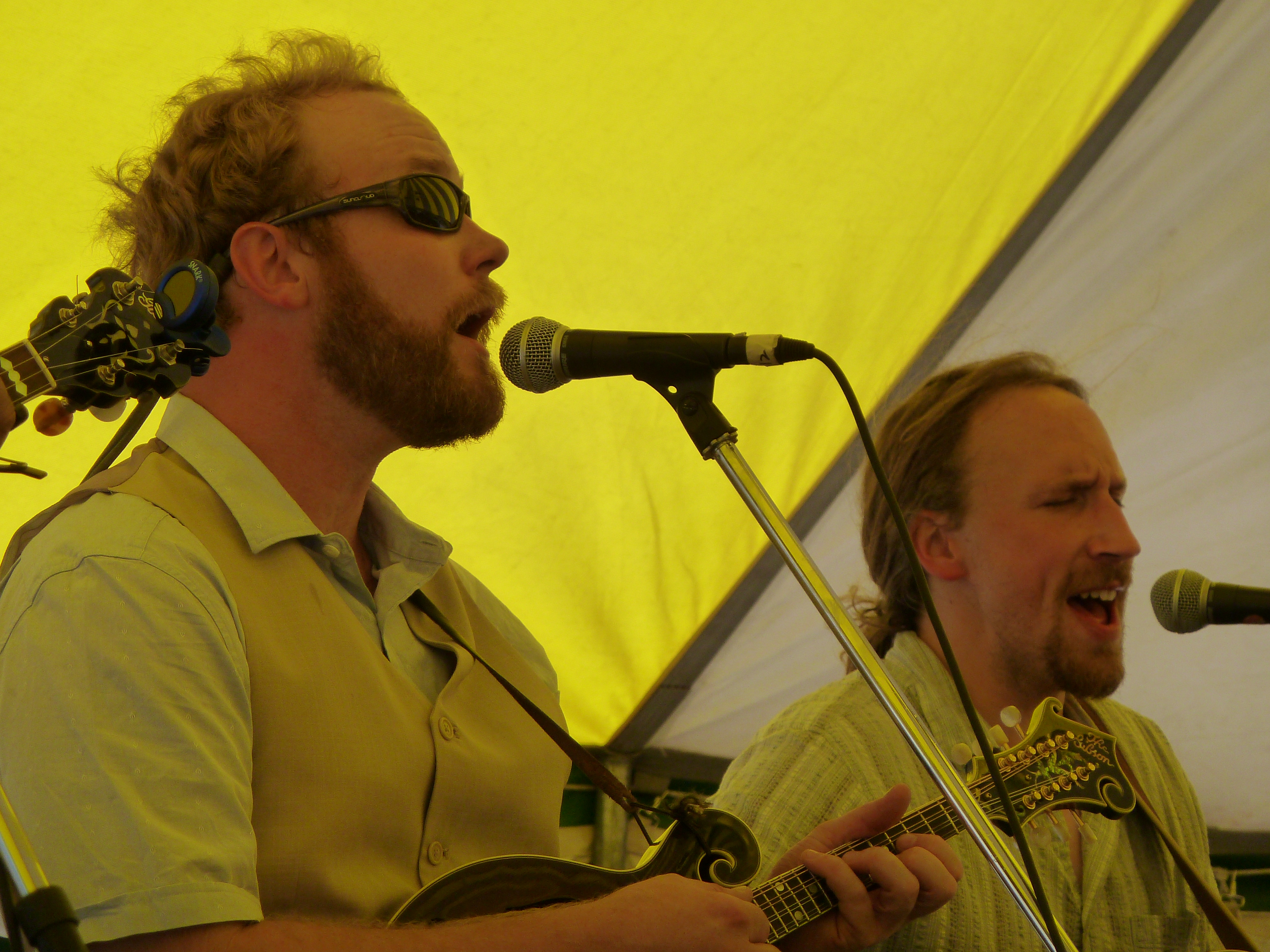 David Jeffrey (left) and Shannon T. Carr performing with Grass It Up at Western Jubilee Recording Company's summer festival in Colorado Springs, Colorado, June 23, 2012